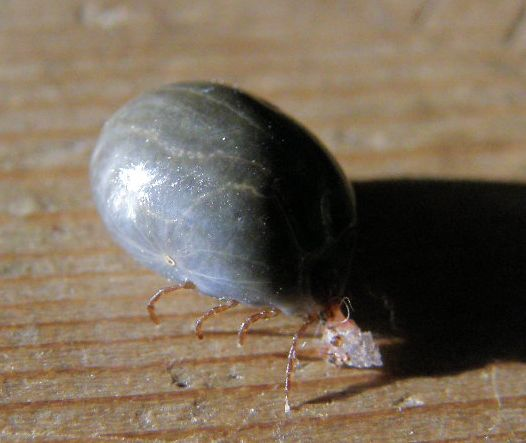 Acari (or Acarina) are a taxon of arachnids that contains mites and ticks. The diversity of the Acari is extraordinary and its fossil history goes back to at least the early Devonian period.[1] As a result, acarologists (the people who study mites and ticks) have proposed a complex set of taxonomic ranks to classify mites. In most modern treatments, the Acari is considered a subclass of Arachnida and is composed of 2-3 superorders or orders: Acariformes (or Actinotrichida), Parasitiformes (or Anactinotrichida), and Opilioacariformes; the latter is often considered a subgroup within the Parasitiformes. The monophyly of the Acari is open to debate and the relationships of the acarines to other arachnids is not at all clear. In older treatments the subgroups of the Acarina were placed at order rank, but as their own subdivisions have become better-understood it is more usual to treat them at superorder rank. Most acarines are minute to small (e.g. 0.08–1.00 millimetre or 0.0031–0.039 inch), but the largest Acari (some ticks and red velvet mites) may reach lengths of 10–20 millimetres (0.39–0.79 in). It is estimated that over 50,000 species have been described (as of 1999) and that a million or more species are currently living. The study of mites and ticks is called acarology (from Greek ἀκάρι, akari, a type of mite; and -λογία, -logia)[2], and the leading scientific journals for acarology include Acarologia, Experimental and Applied Acarology and the International Journal of Acarology.